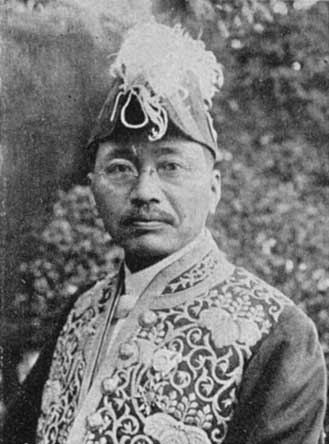 Rinzō Miwata, 1st director of the Yamagata Higher School.